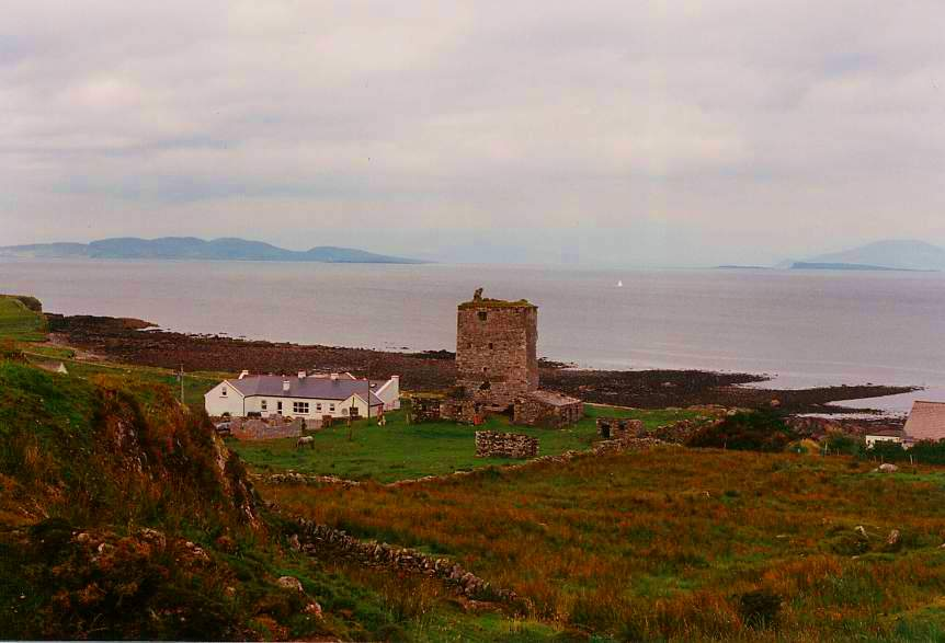 Renvyle (Rinn Mhaoile - The Bald Peninsula) is a peninsula situated in North-West Connemara in Co. Galway, not far from the border with Co. Mayo. It is surrounded on three sides by the Atlantic Ocean and by the Dawros river on the other side. It contains the villages of Tully and Tully Cross. Renvyle is situated in the parish of Ballinakill and historically was part of the barony of Ballynahinch. The villages of Leenane and Letterfrack are close by and Llifden is the nearest town, lying 12 miles (9 km) to the south.